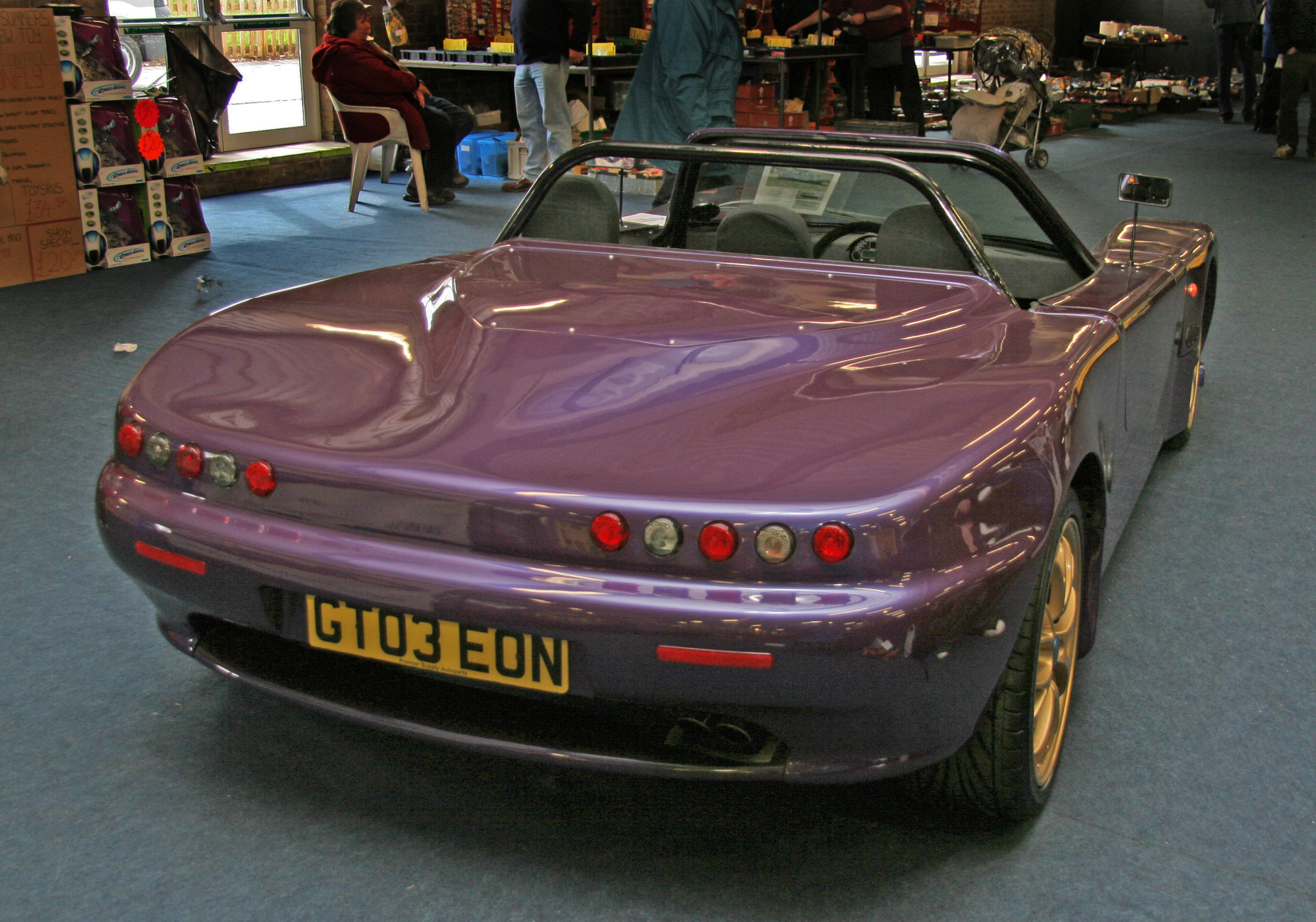 This one is odd - it has the coupe windscreen but not roof or rear glass?